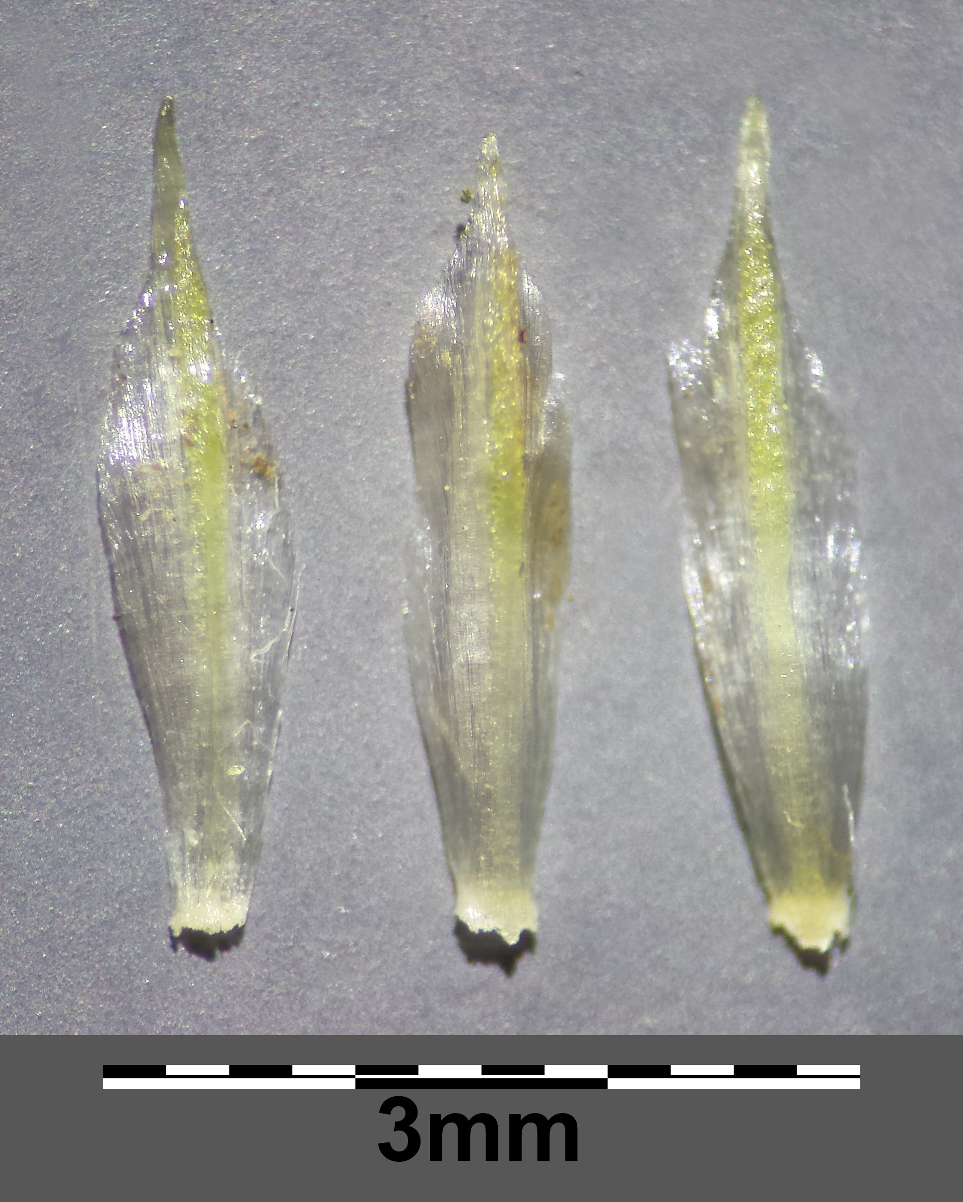 Receptacular bracts Taxonym: Anthemis arvensis (subsp. arvensis) ss Fischer et al. EfÖLS 2008 ISBN 978-3-85474-187-9 Location: nearby Riebeis, Rappottenstein, district Zwettl, Lower Austria - ca. 775 m a.s.l. Habitat: field